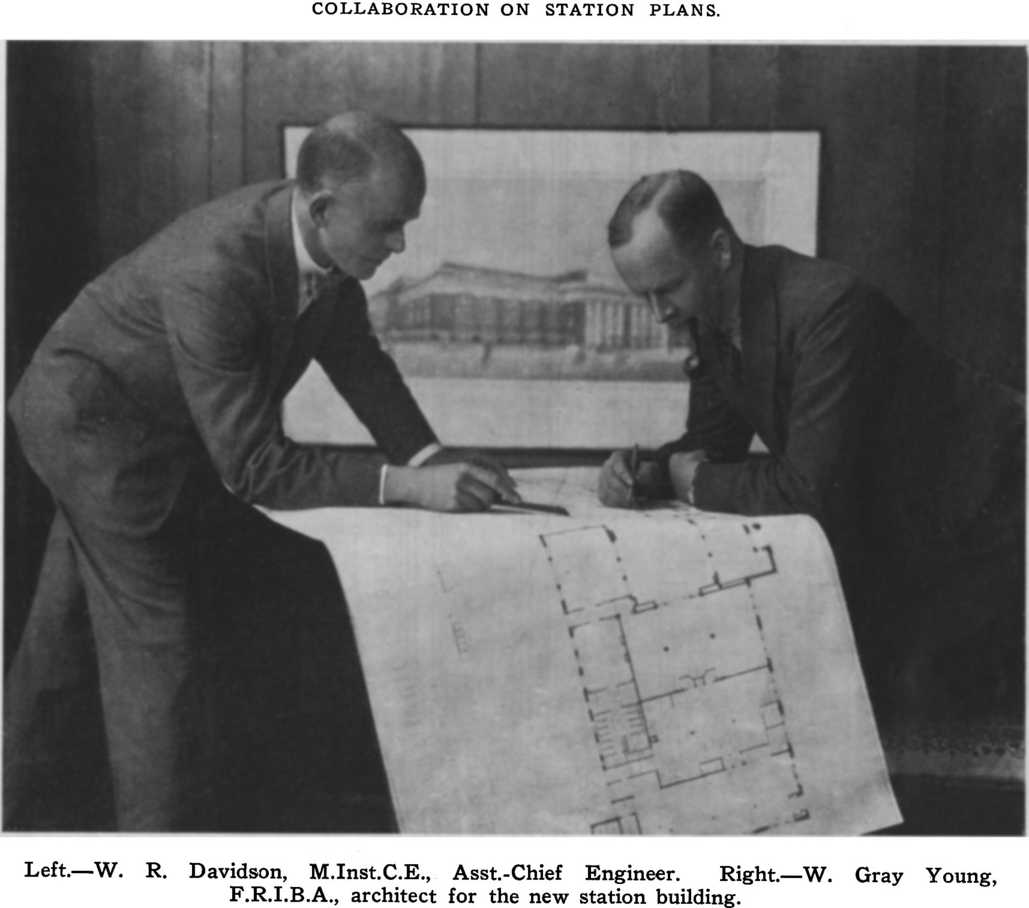 "COLLABORATION ON STATION PLANS. Left.—W. R. Davidson, M.Inst.C.E., Asst.-Chief Engineer. Right.—W. Gray Young, F.R.I.B.A., architect for the new station building."